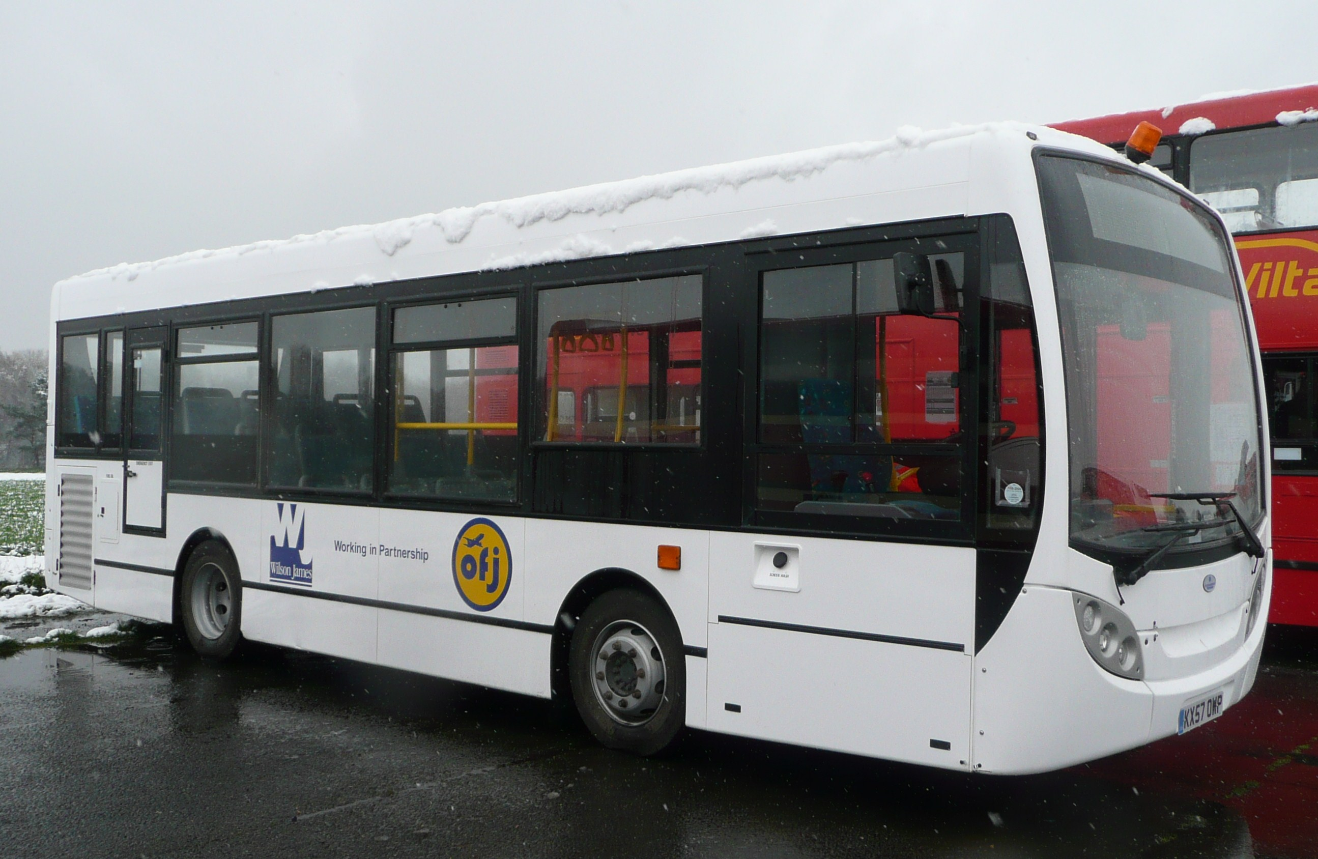 An ofj connections Enviro 200 Dart. ofj is part of Tellings Golden Miller